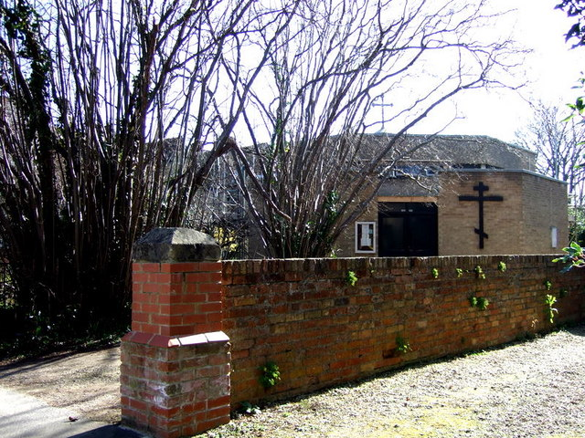 The Orthodox Church of the Annunciation This little church in Canterbury Road was built in 1973 to serve the Russian, Greek and Serbian orthodox communities in Oxford, although they had had a presence elsewhere in the city for decades before.